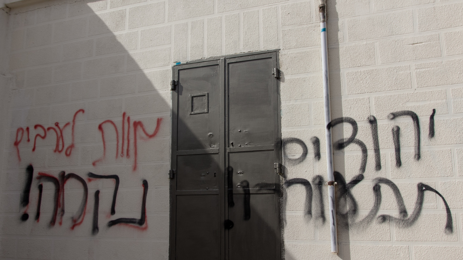 Peace Now's Price Tag tour, 31 January 2014. Price Tag graffiti on a Palestinian house near Maale Levona. "Jews Wake Up!", "Death to Arabs", "Revenge!"